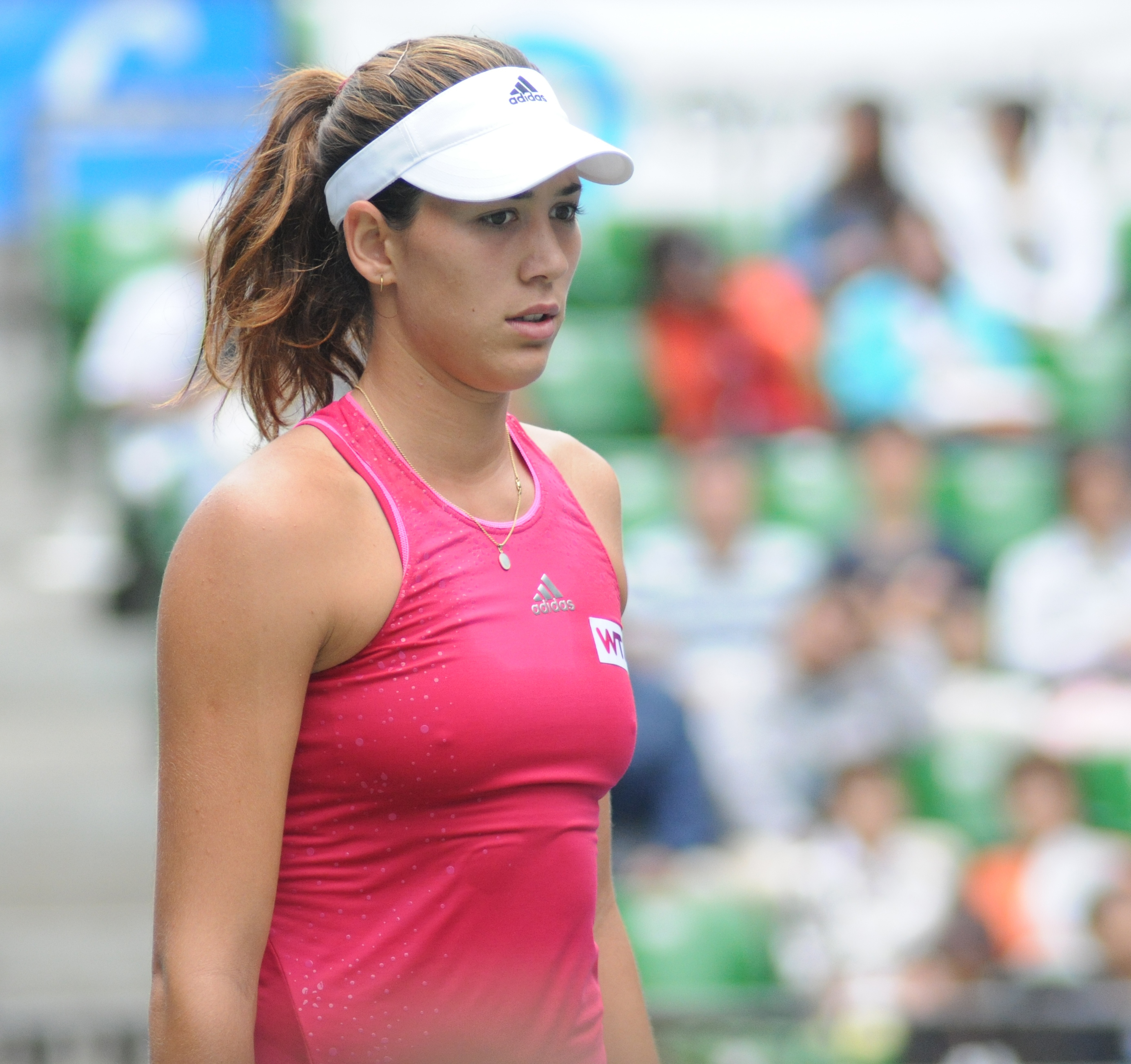 Garbiñe Muguruza at the 2014 Toray Pan Pacific Open